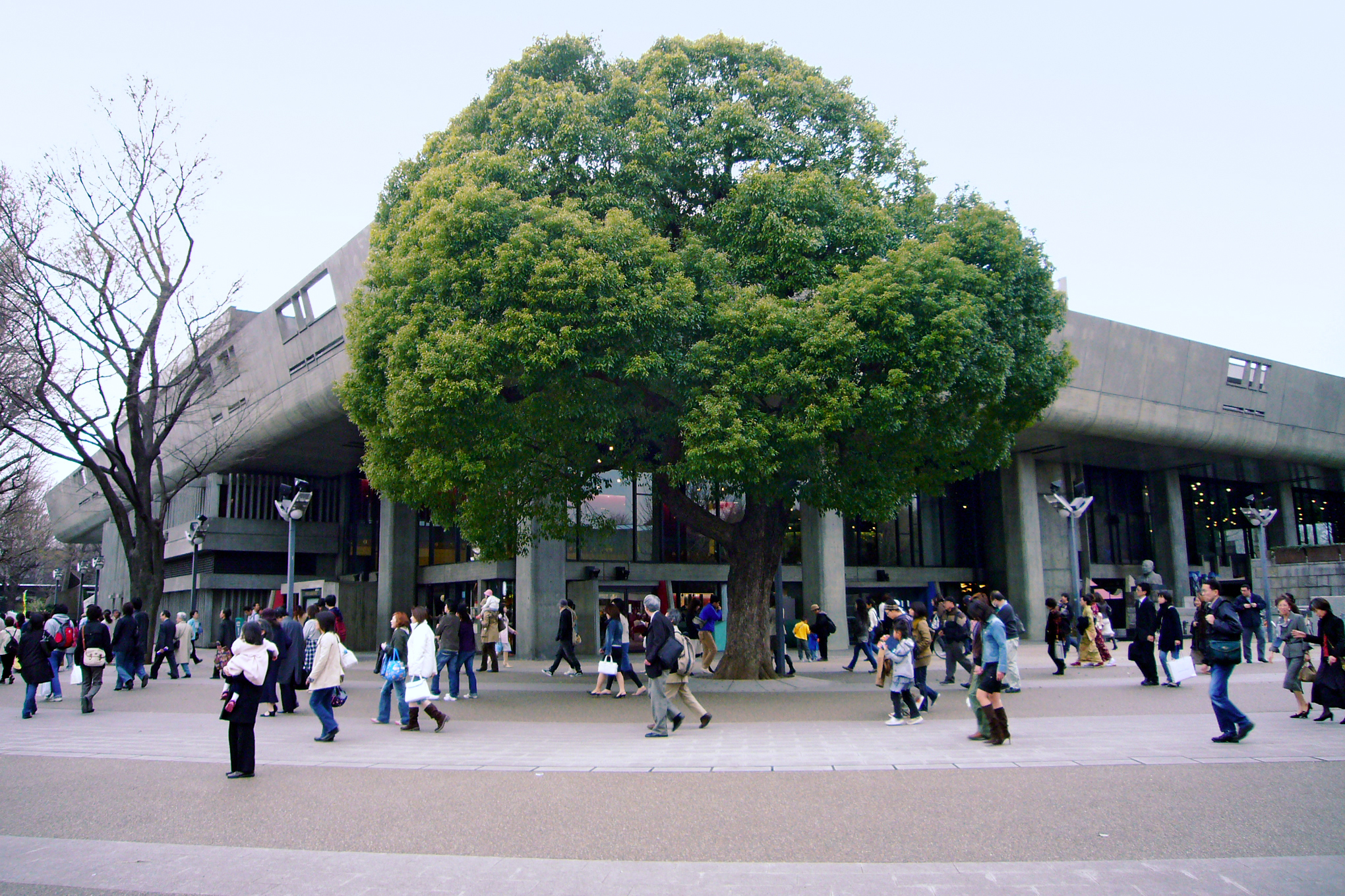 Tokyo Bunka Kaikan, Taito-ku, Tokyo, Japan